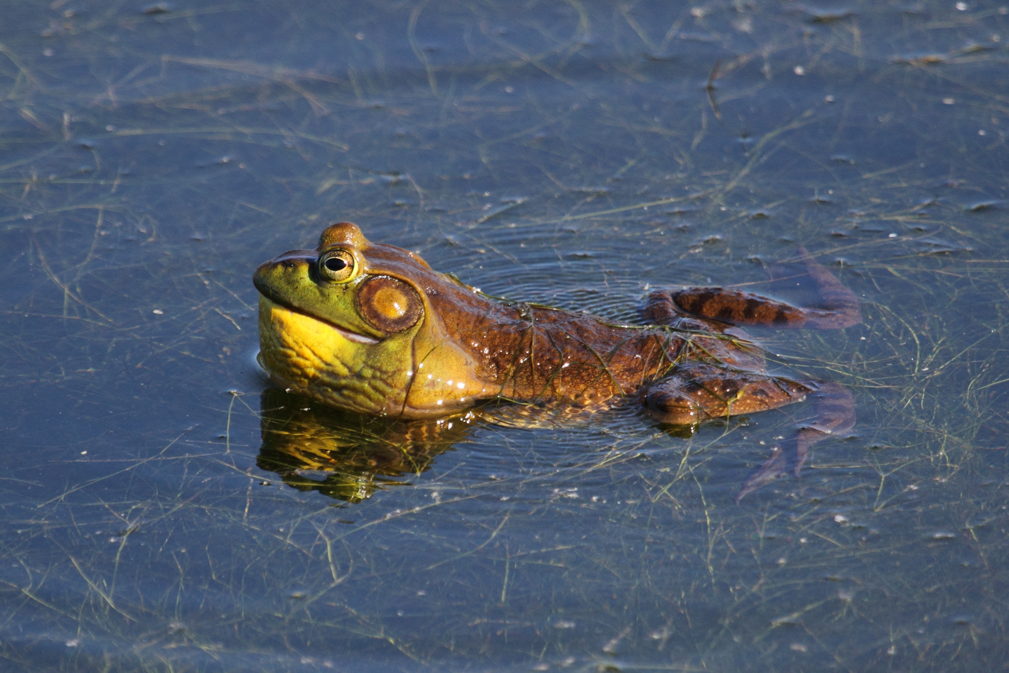 Male Bullfrog calling, Léon-Provancher marsh, Quebec, Canada.